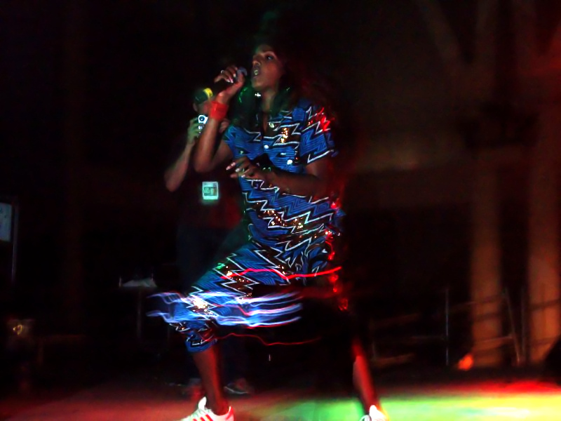 M.I.A. in concert - Sonar 2005.